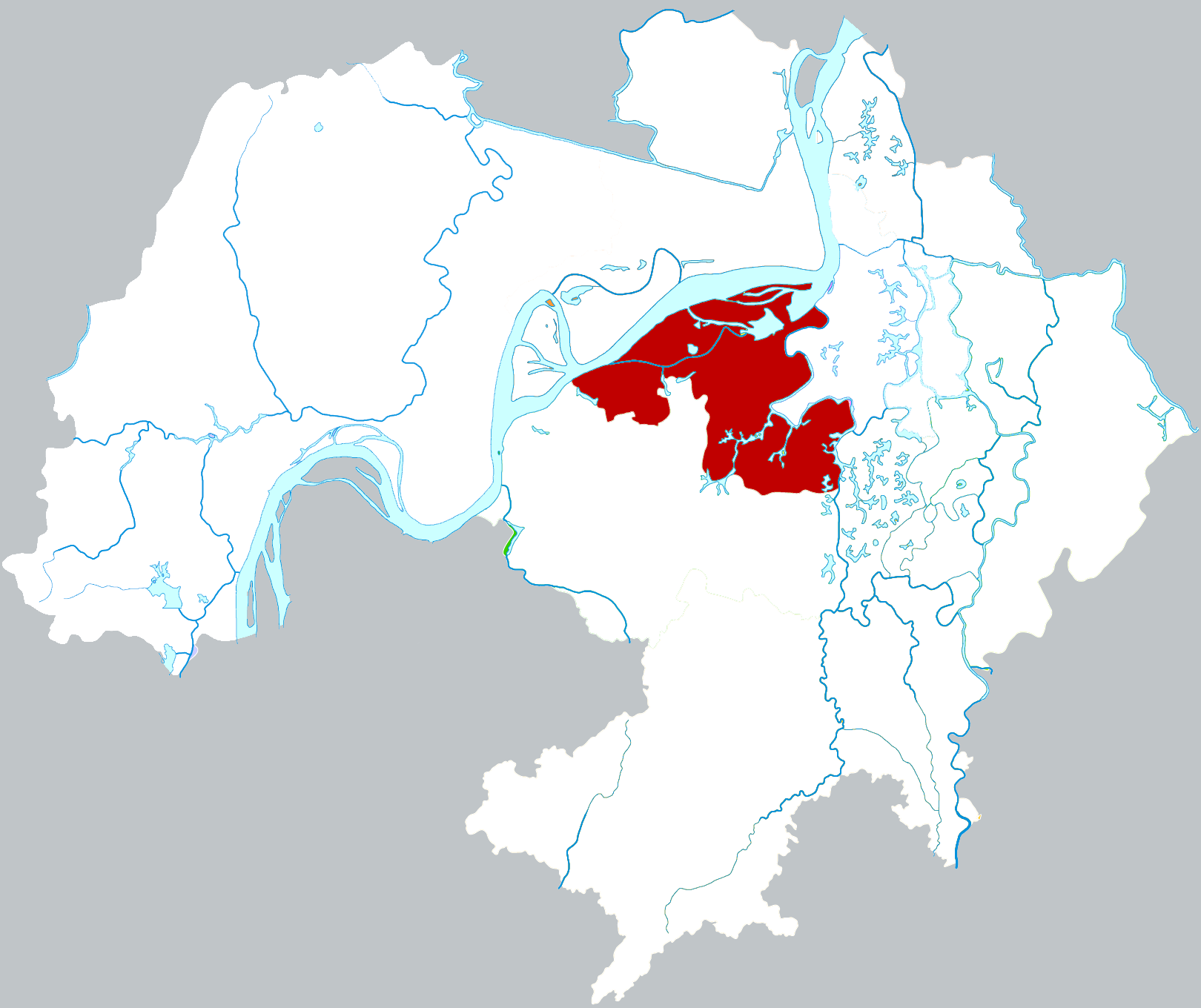 Location of Sanshan district in Wuhu city, China